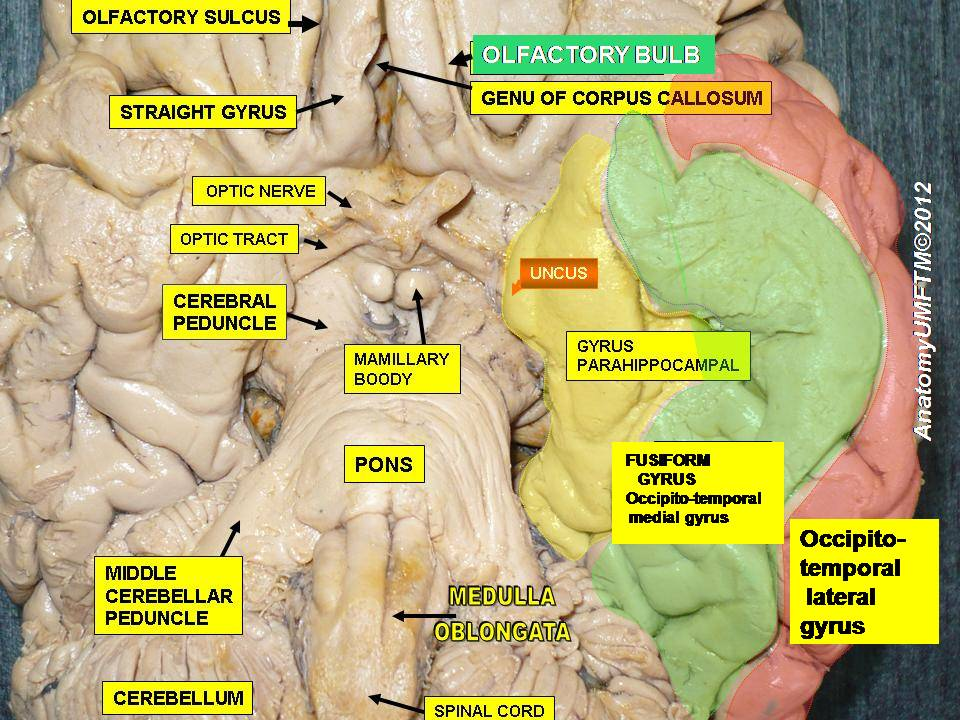 Anatomical dissection